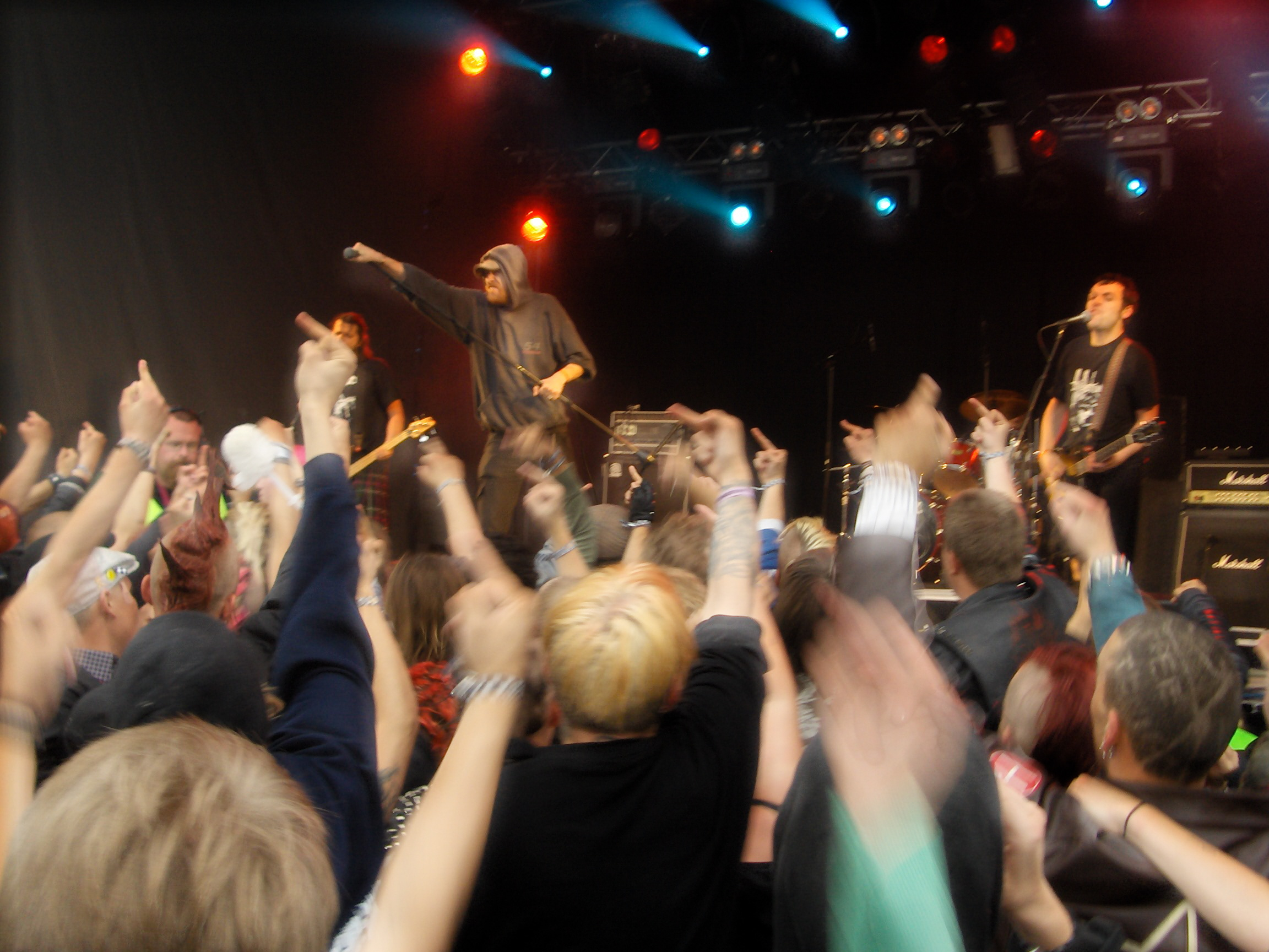 Author: Seonaidh Adams. Oi Polloi beò aig an fhèis 'Augustibuiller' anns an t-Suain, Lùnastal 2005.